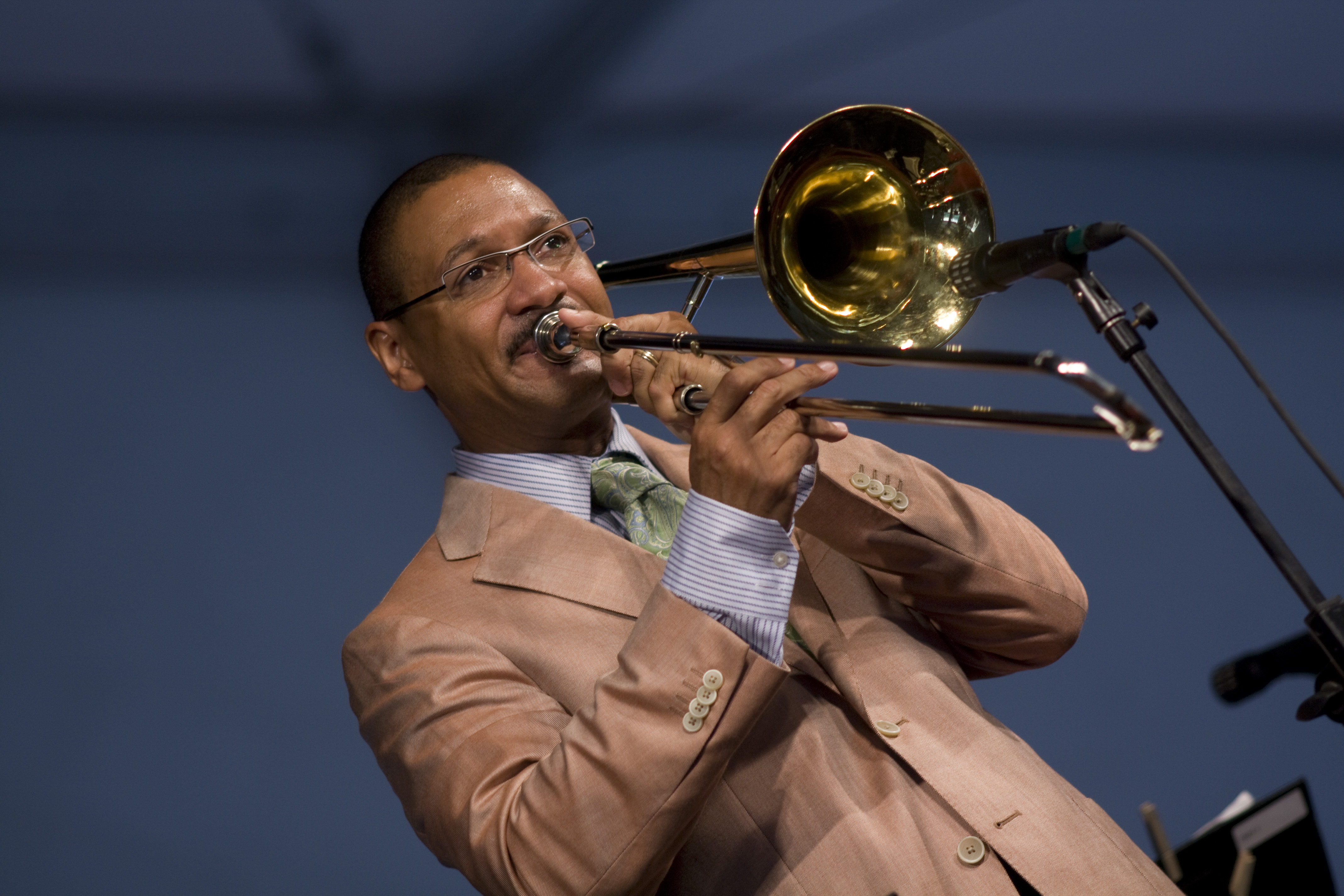 Delfeayo Marsalis & the Uptown Jazz Orchestra, New Orleans Jazz Fest